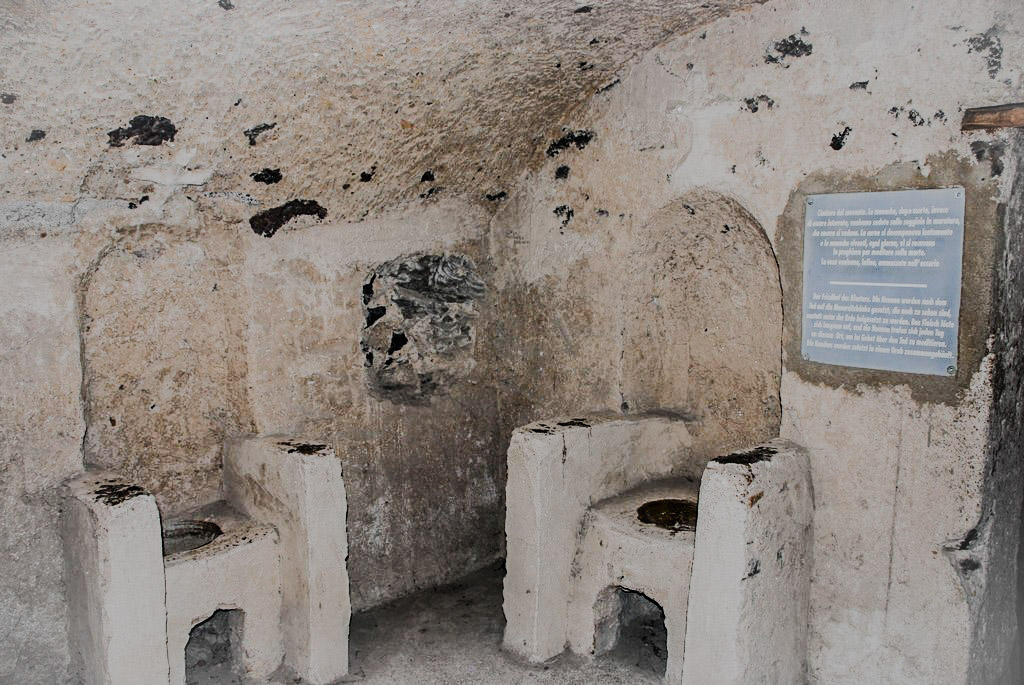 In the past the dead nuns was leaved here, over the stone chairs, to mummify! Every day the live nuns went down to prey near the corpses. O_O